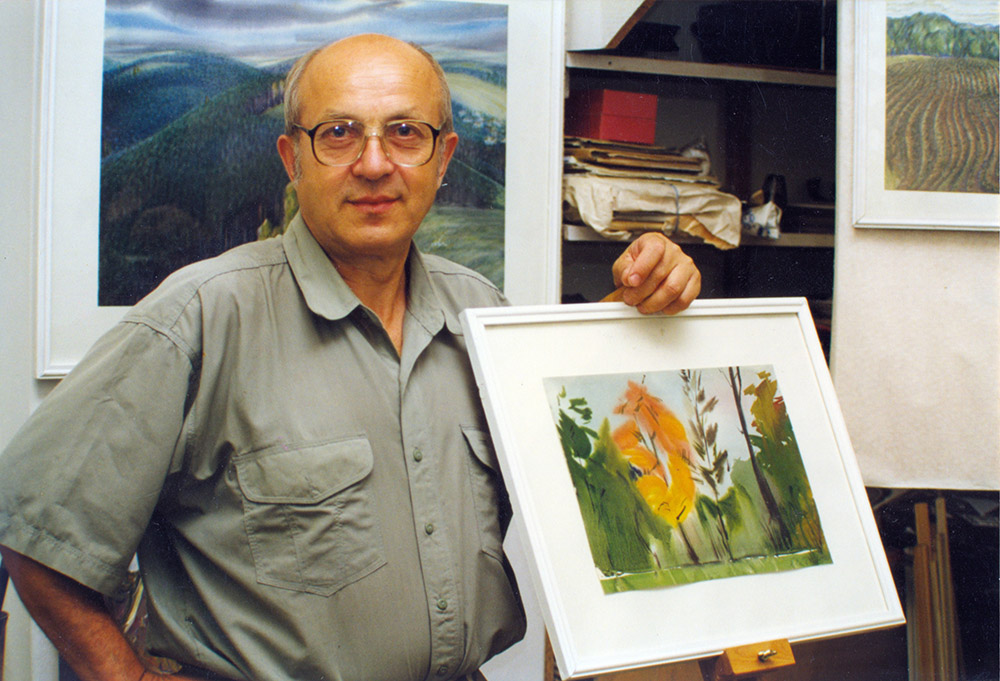 Portrait of Mykola Lebid, ukrainian artist in his studio (1998)